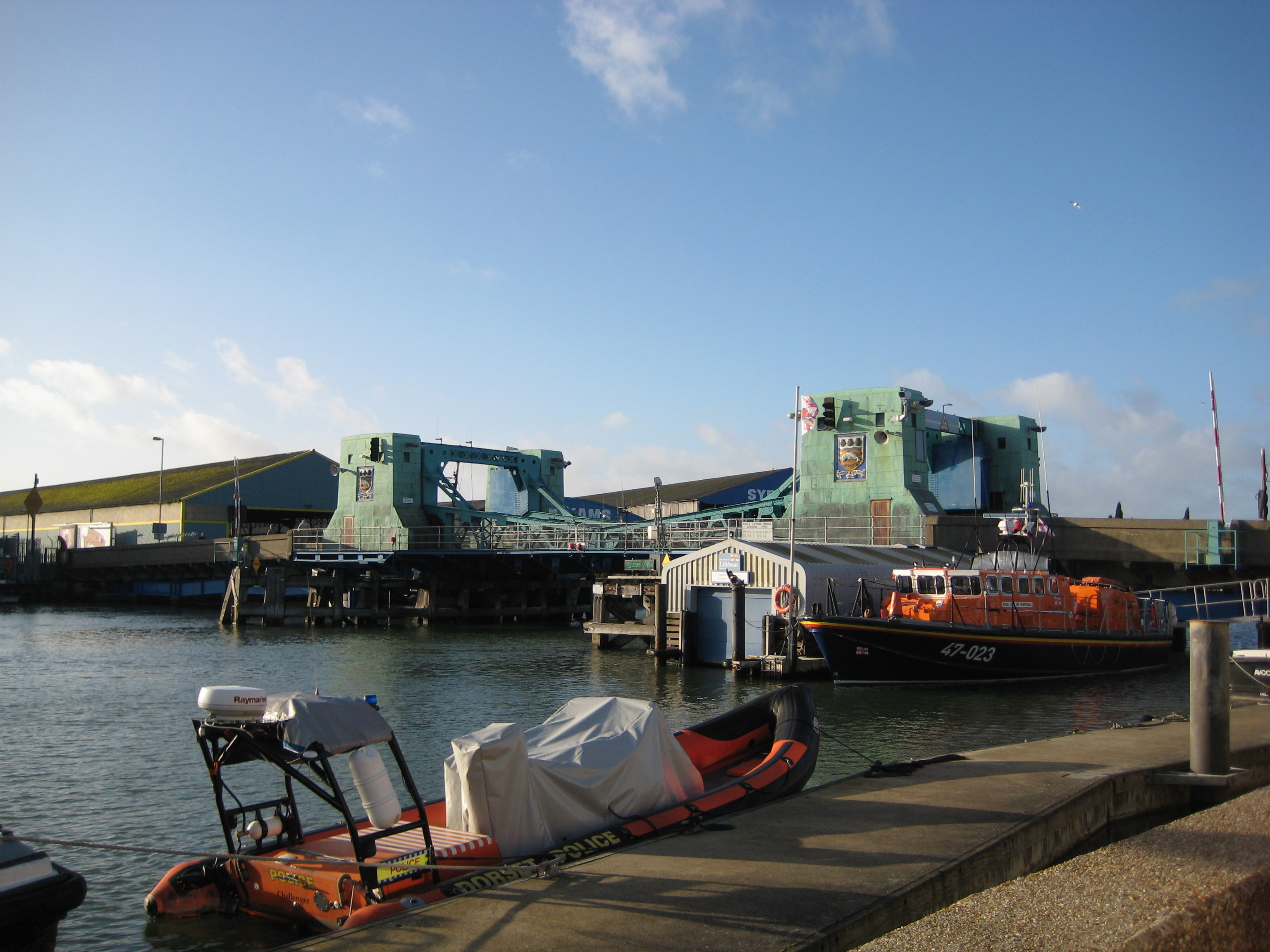 Own Work. Dec 2007. Poole. RNLI lifeboat 'City of Sheffield' 47-023